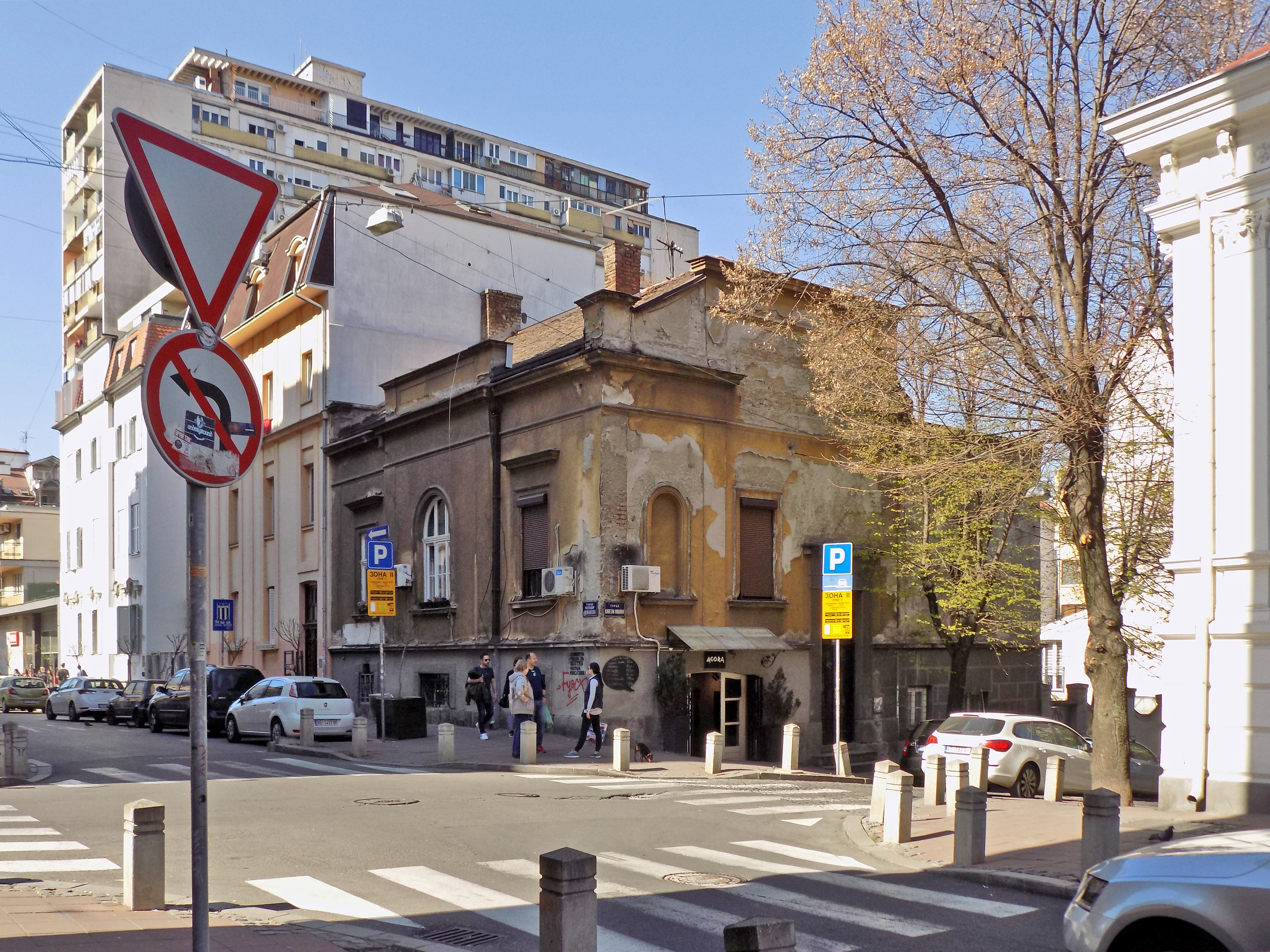 House of Beta and Rista Vukanović in 13 Kapetan Mišina street, Belgrade